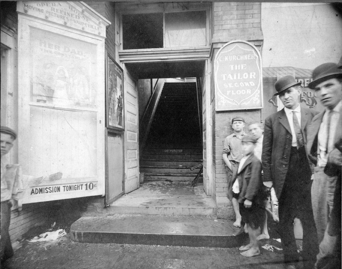 Photo by Ern K Weller taken the day after the Canonsburg Opera House disaster